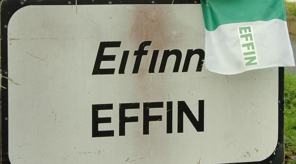 Sign on way into Effin village